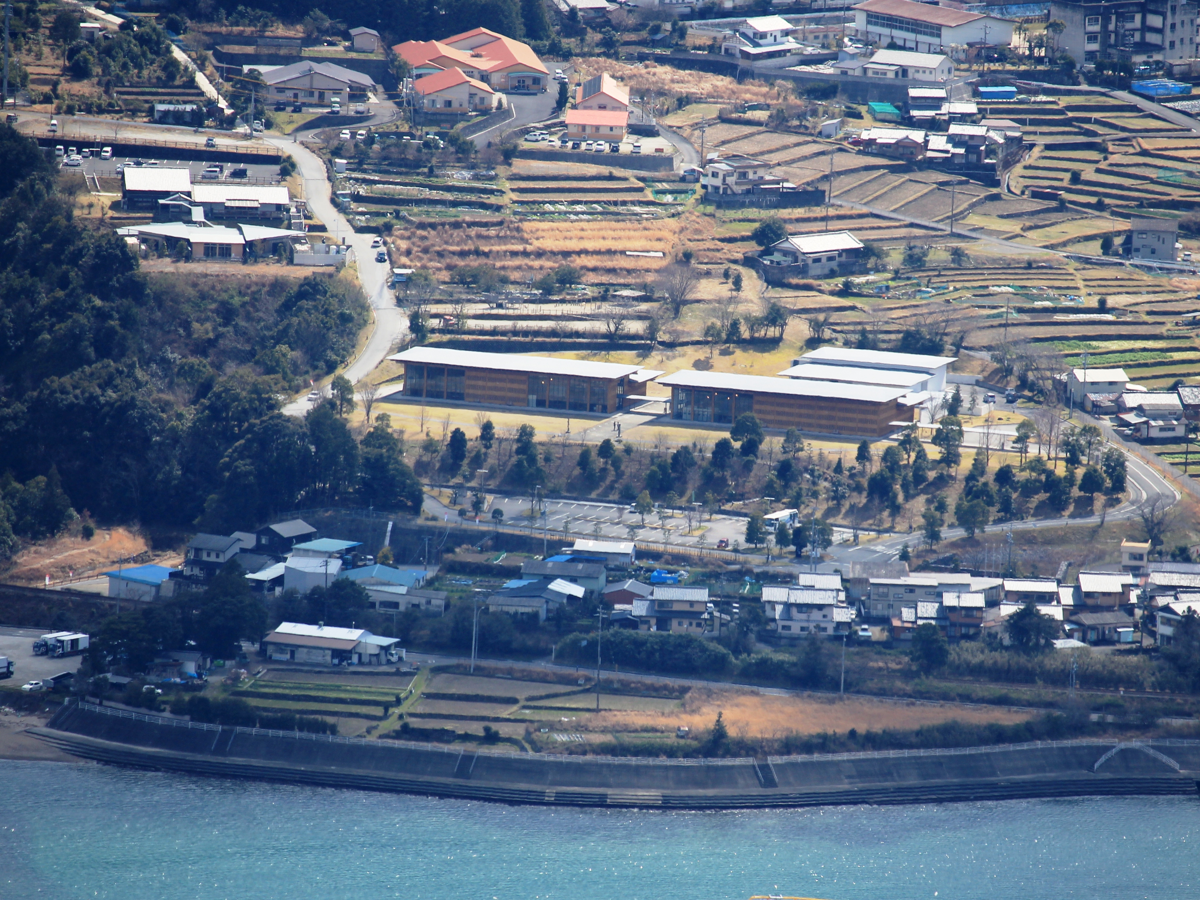 Mie Prefecture Kumano Kodo Center seen from Mount Tengura in Owase Mie Prefecture, Japan.